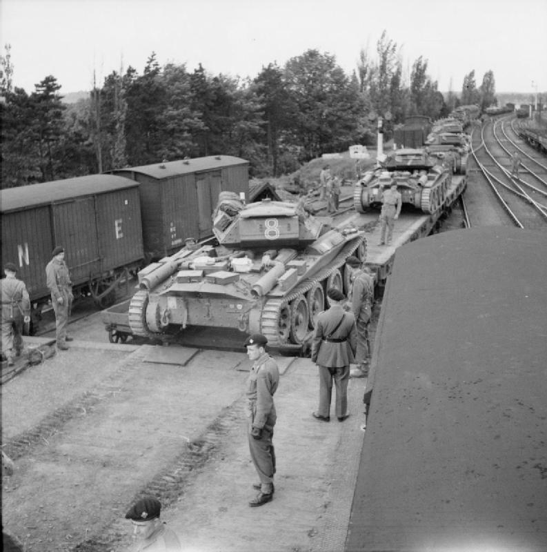 IWM caption : Covenanter tanks of 5th Royal Tank Regiment, 9th Armoured Division entraining at Thetford in Norfolk, UK.